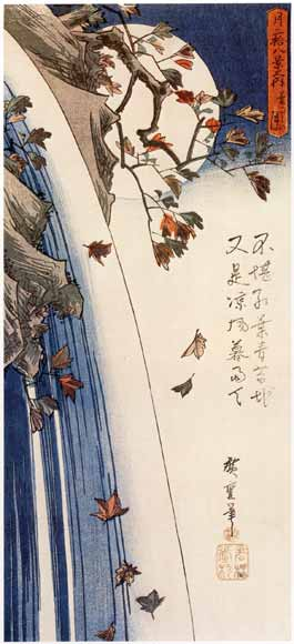 Hiroshige, series “Twenty-Eight Moonlight Views“, early 1830s